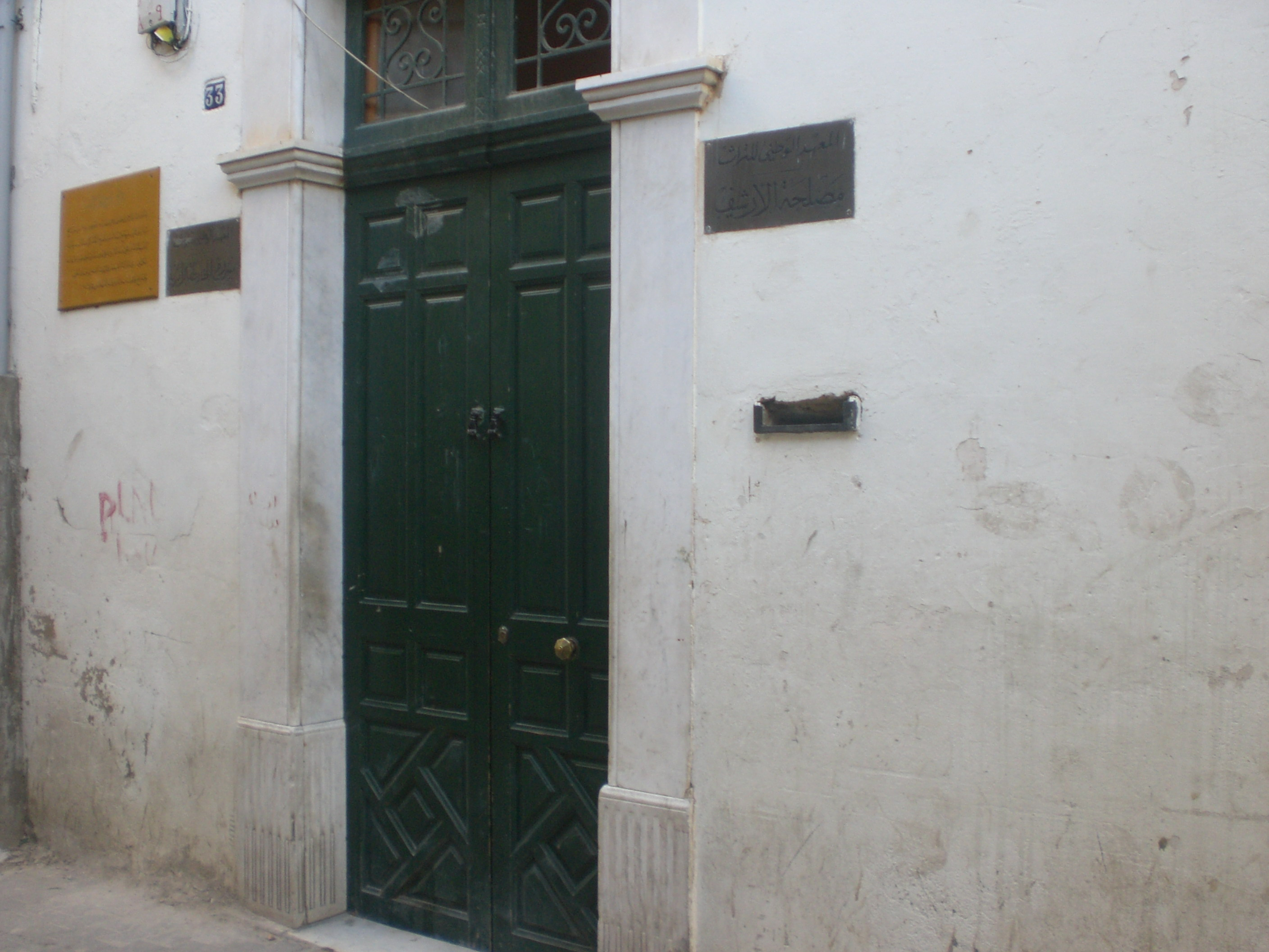 The House of Ibn Khaldoun in Tunis